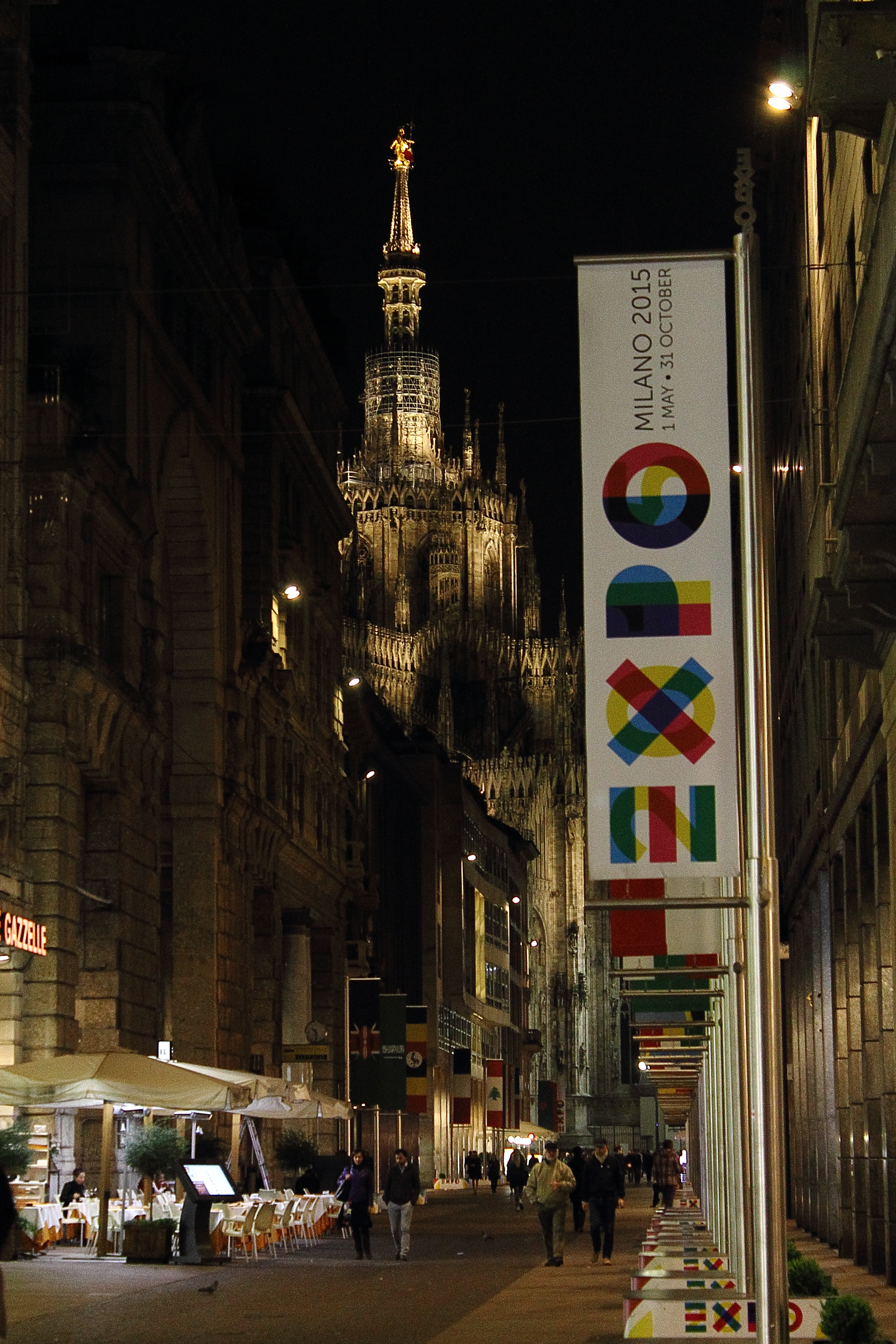 Cathedral of Milan - EXPO 2015